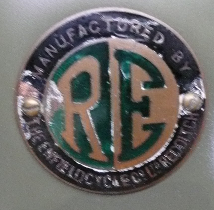 Royal Enfield motorcycle badge